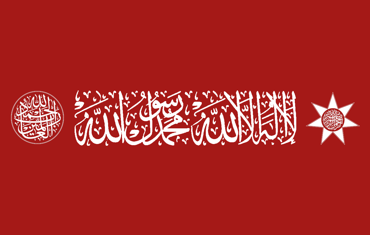 The Hashemite flag that was adopted about five centuries in the era of Hashemites in 1555